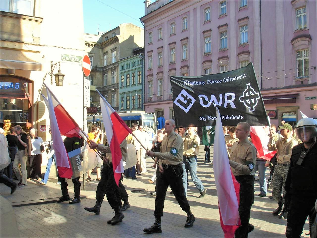 Polish nationalist political party ONR - Anniversary Day demonstration in Kraków, Poland, 2007 04 14